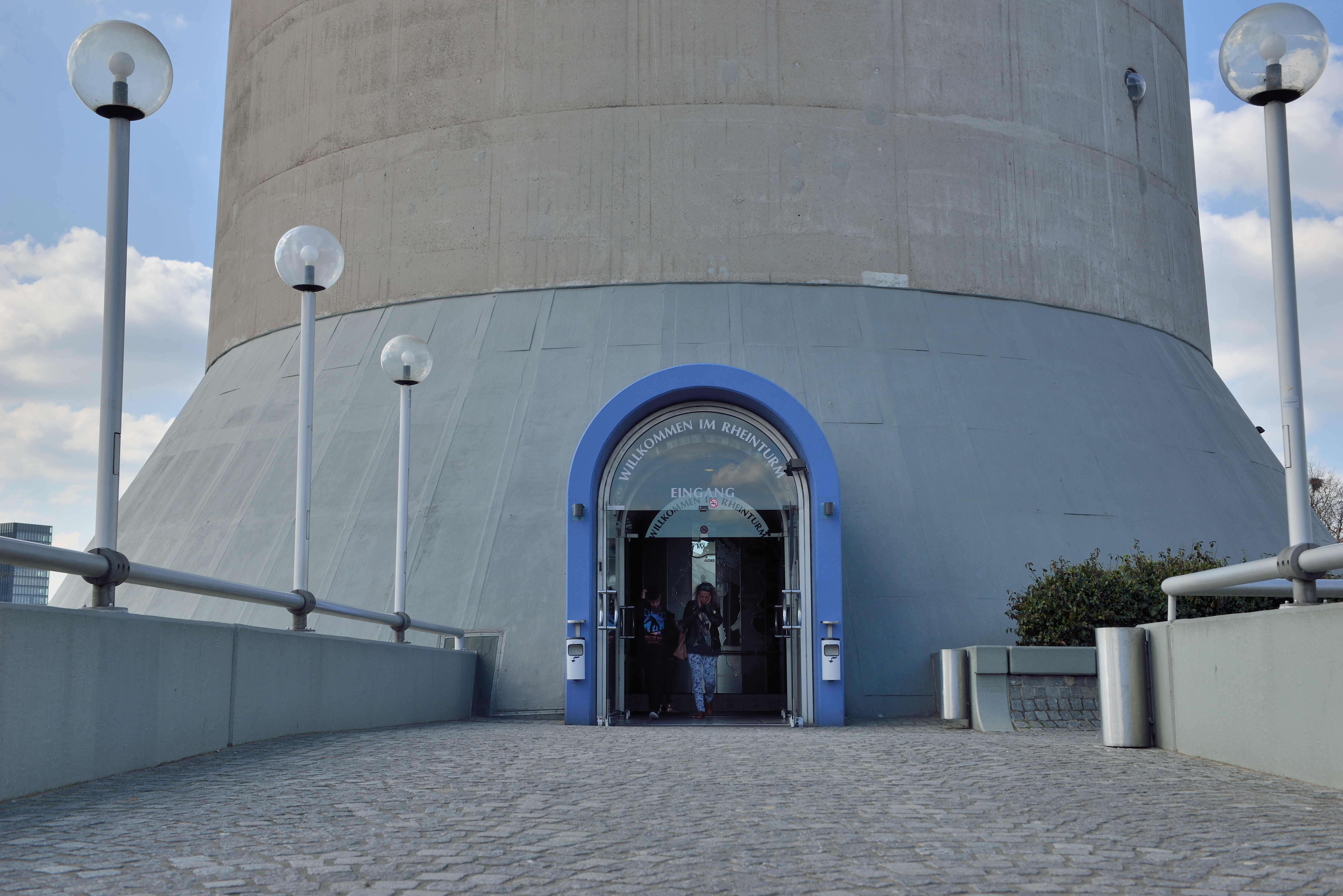 Düsseldorf: Rheinturm